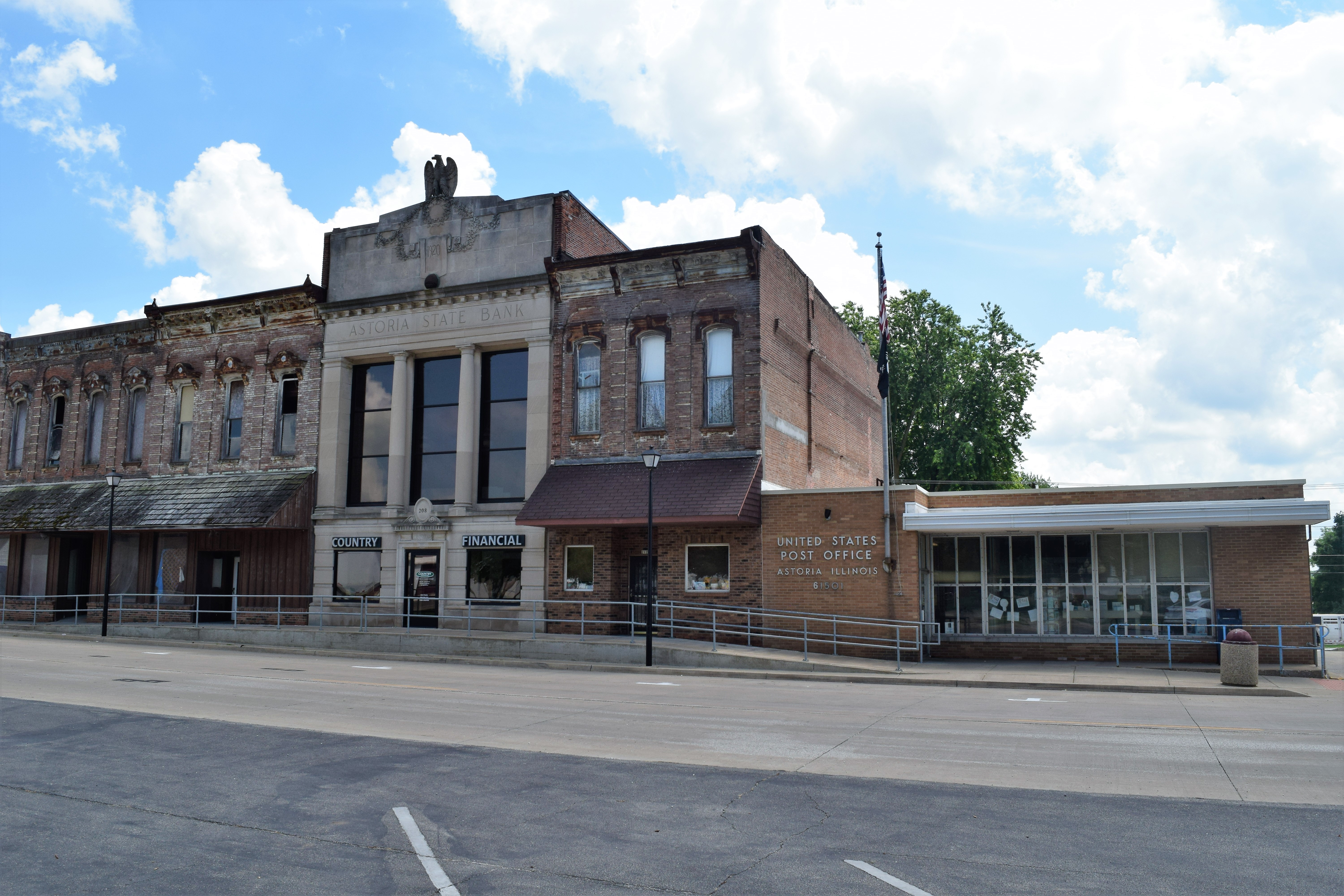 Buildings in downtown Astoria, Illinois, including the Astoria post office.